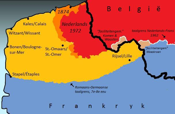 Language situation in Northern part of France